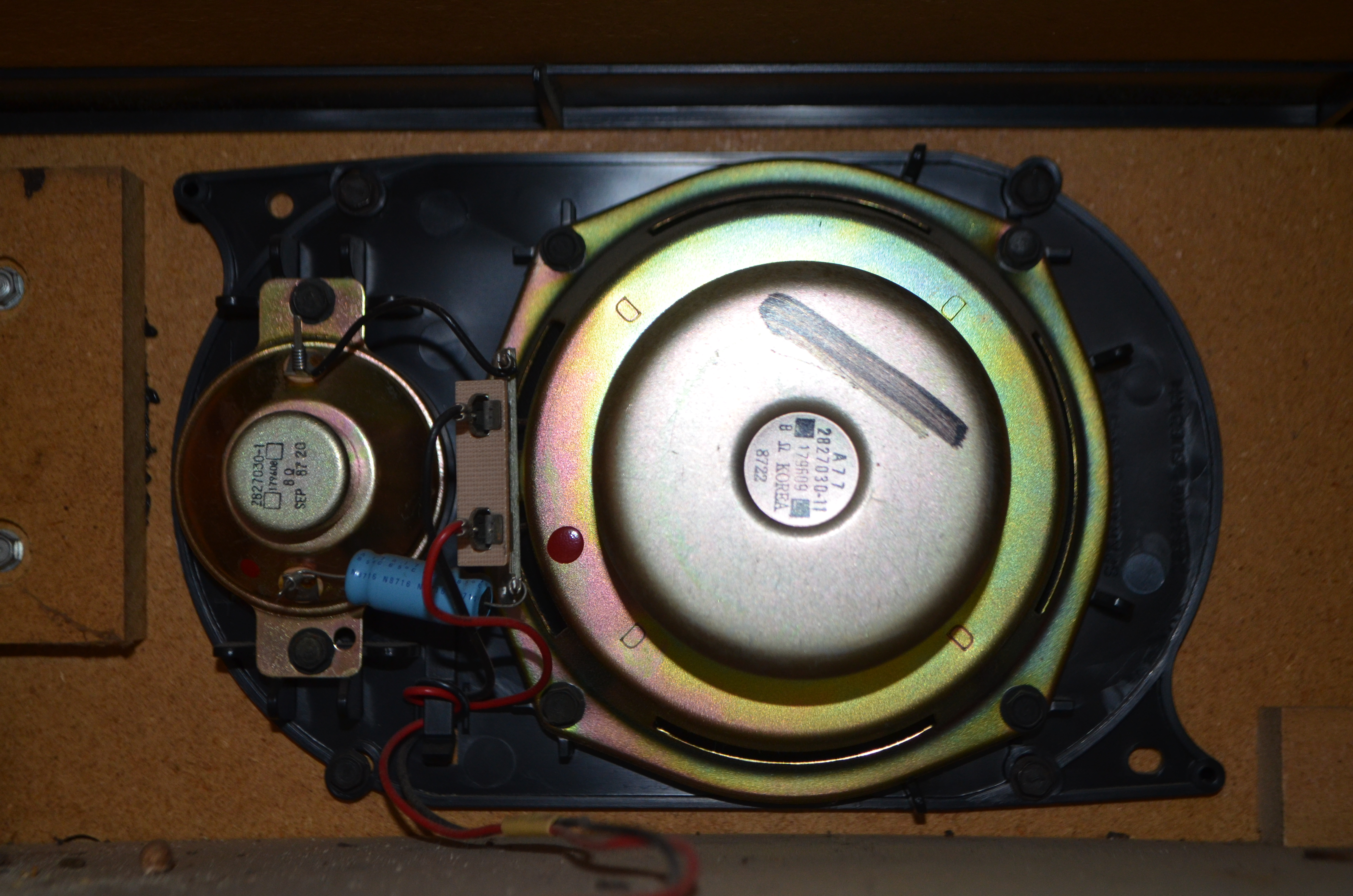 Two-way Loudspeaker in an RCA Dimensia console Television set